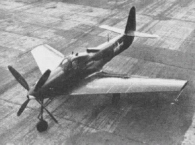 The Bell L-39-2 used by the U.S. Navy to study swept wings in its second configutation with fully swept wings for the X-2 program. The USN contracted with Bell for the modification of two P-63C-5 Kingcobras which would be fitted with a pair of wings swept back at 35 degrees, with a short inboard straight section. The wings carried adjustable leading edge slats and trailing-edge flaps. All armament was deleted and the rear canopy was faired over. These two planes were redesignated L-39-1 and L-39-2 respectively. The rather odd designation for a Navy aircraft was gotten by using the Navy's code letter for Bell (L) and the company's model number (39). The L-39-1 flew for the first time on April 23, 1946. Both aircraft tested a series of leading edge slat configurations of different designs. L-39-1 went to the NACA for continuing flight tests, whereas L-39-2 remained at Bell. L-39-2 was later fitted with a completely swept wing of a design planned for the X-2 experimental rocket-powered research aircraft.